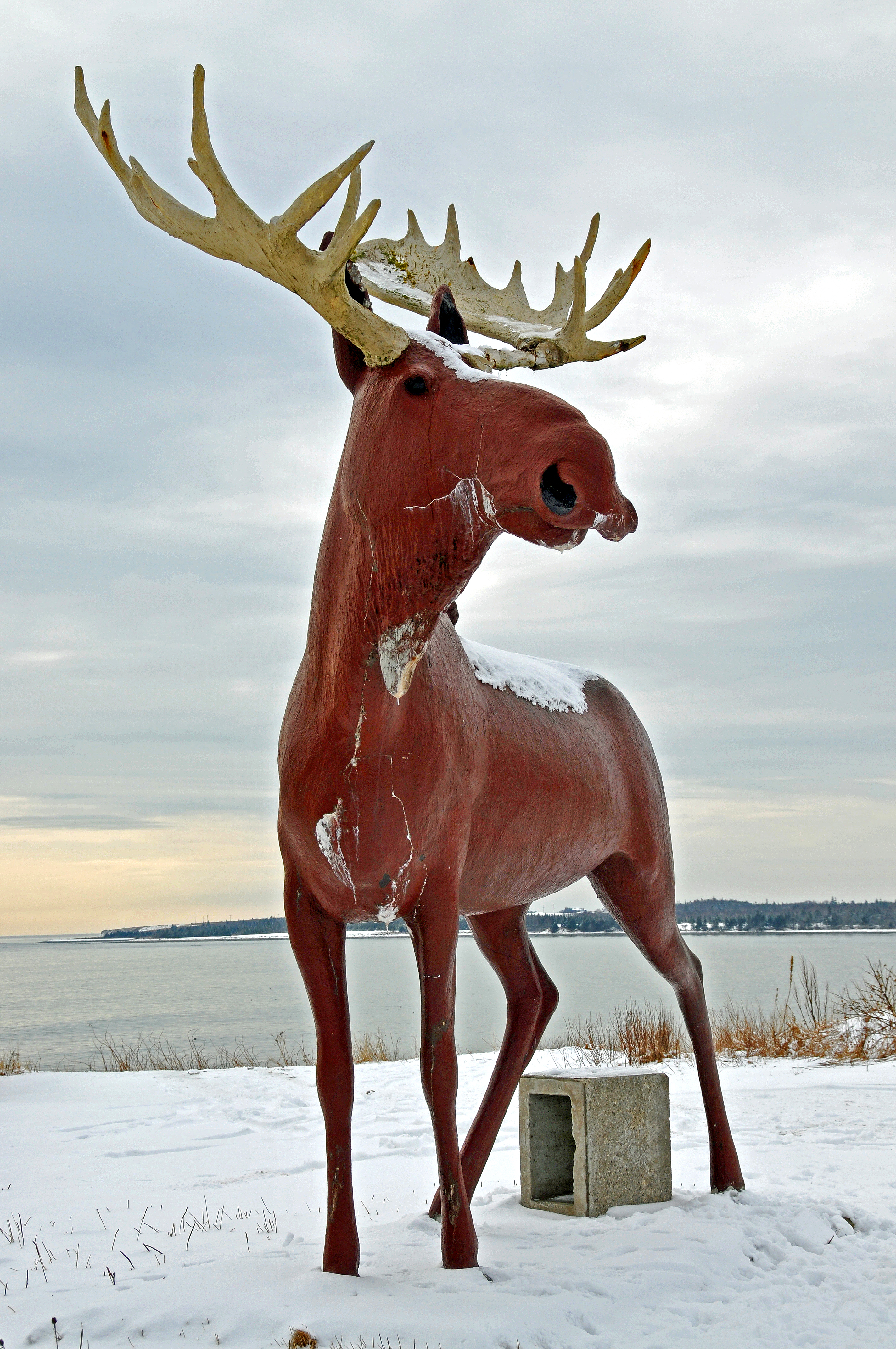 The Cow Bay 'Moose. Erected by Winston Bronnum in the Spring of 1959, this famous landmark stands guard over Cow Bay and Silver Sands Beach. The Moose was restored in the Summer of 1992, in celebration of Canada's 125th birthday.